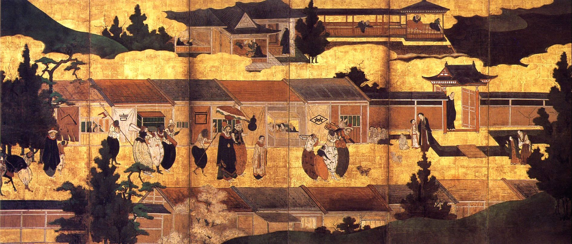 Unknown: The arrival of Southern Barbarians. Left byobu. Ink, color and gold leaf on paper, 154x354 cm. Kanagawa Prefectural History Museum